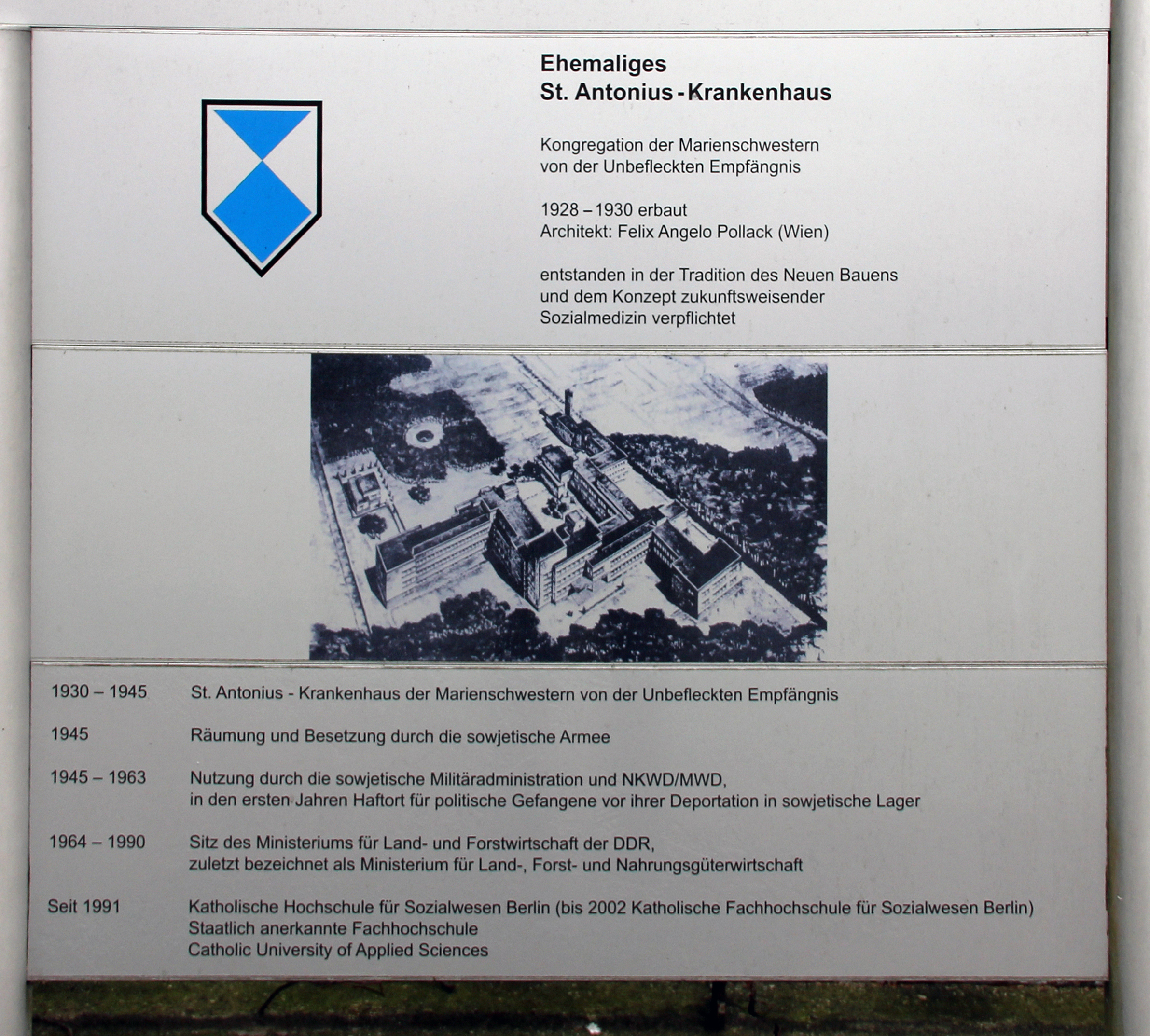 Memorial plaque, St. Antonius Krankenhaus, Köpenicker Allee 39, Berlin-Karlshorst, Deutschland